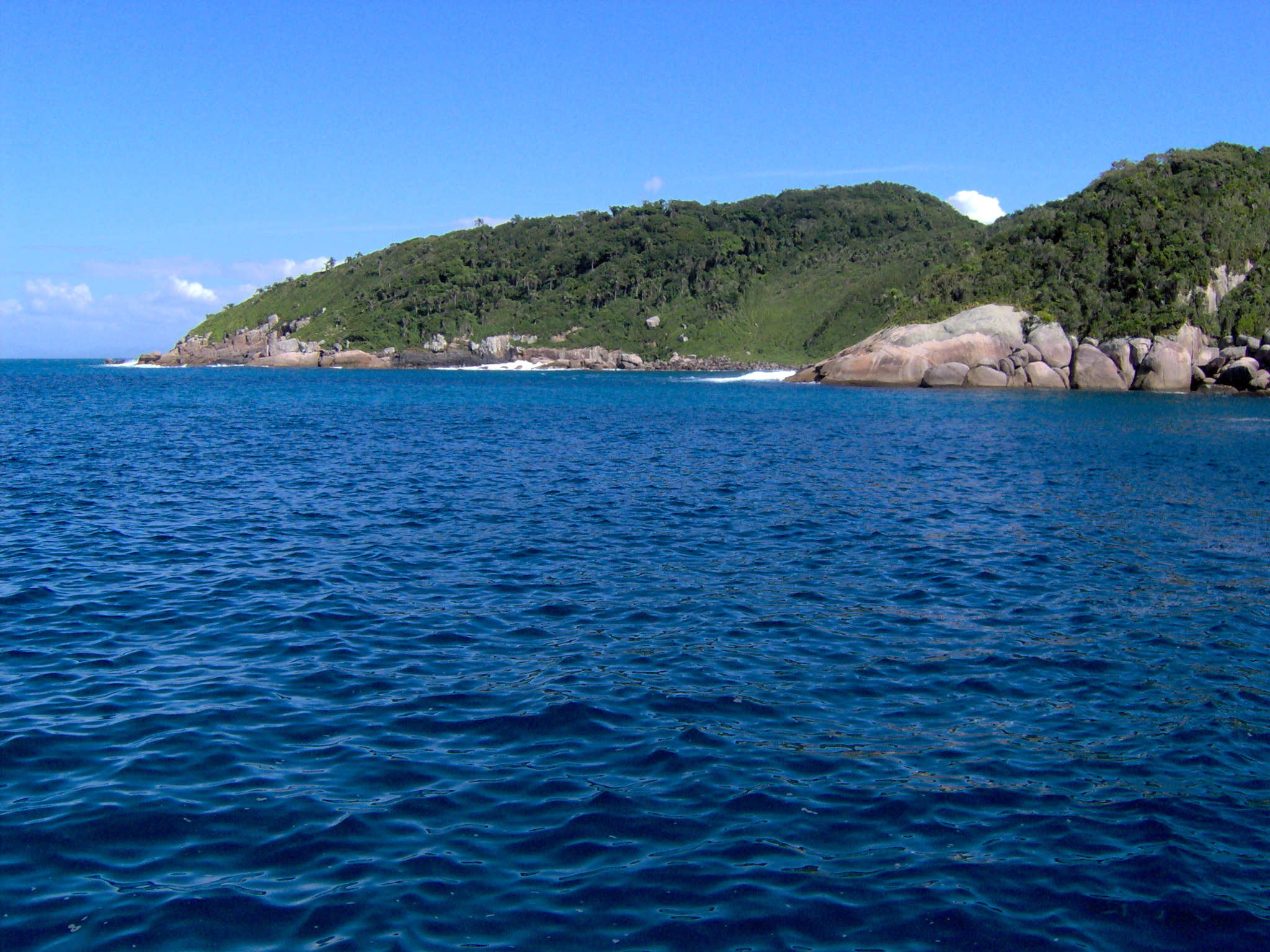 The coast at Ilha do Arvoredo, with Atlantic Forest ecoregion tropical forest habitat on the slopes. Located in Santa Catarina, southern Brazil.